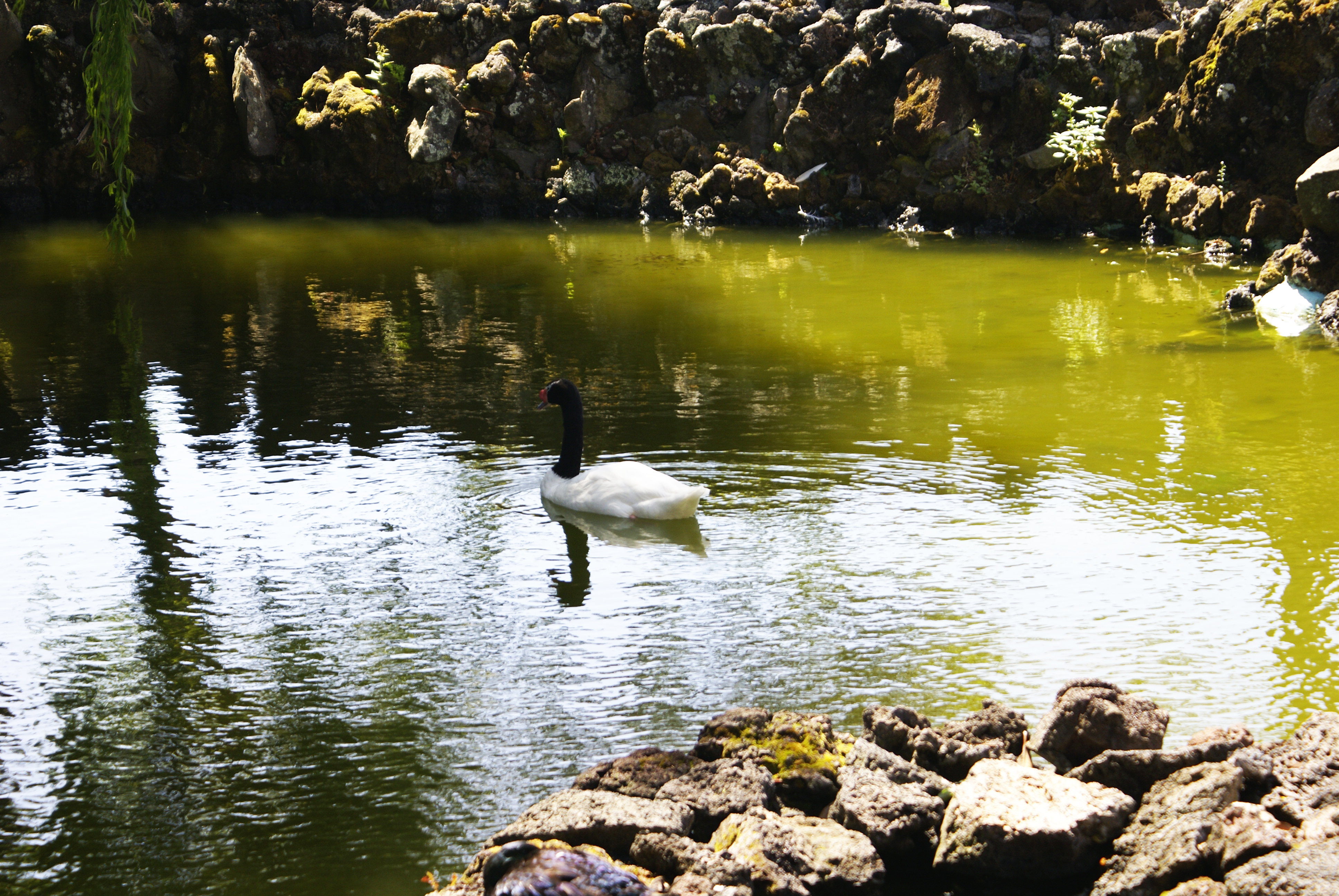 Park/garden in the Praça da República, Matriz, Horta, Faial (Azores), Portugal